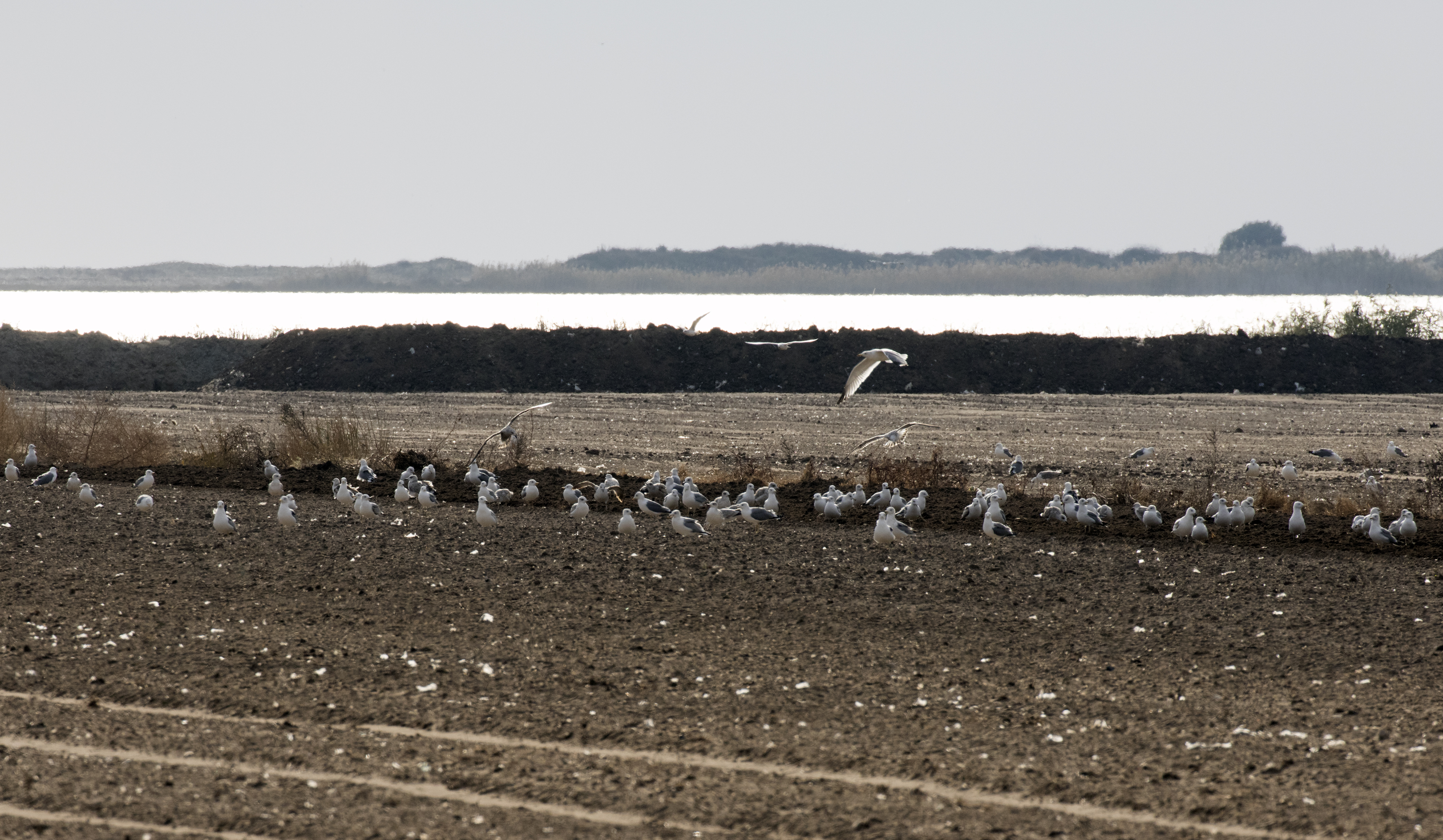 A flock of gulls on a field by the east side of Tuz Lake in Tuzla - Karataş, Adana - Turkey.